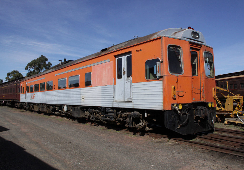 Former V/Line DRC railcar DRC43 at the Seymour Railway Heritage Centre, Victoria